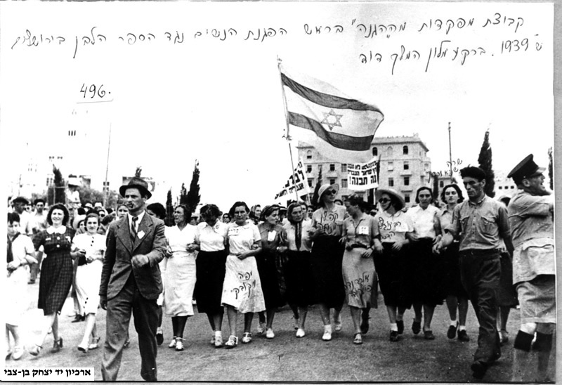 Headquarters of the "Hagana" lead a demonstration against the "White Paper", Jerusalem 1939